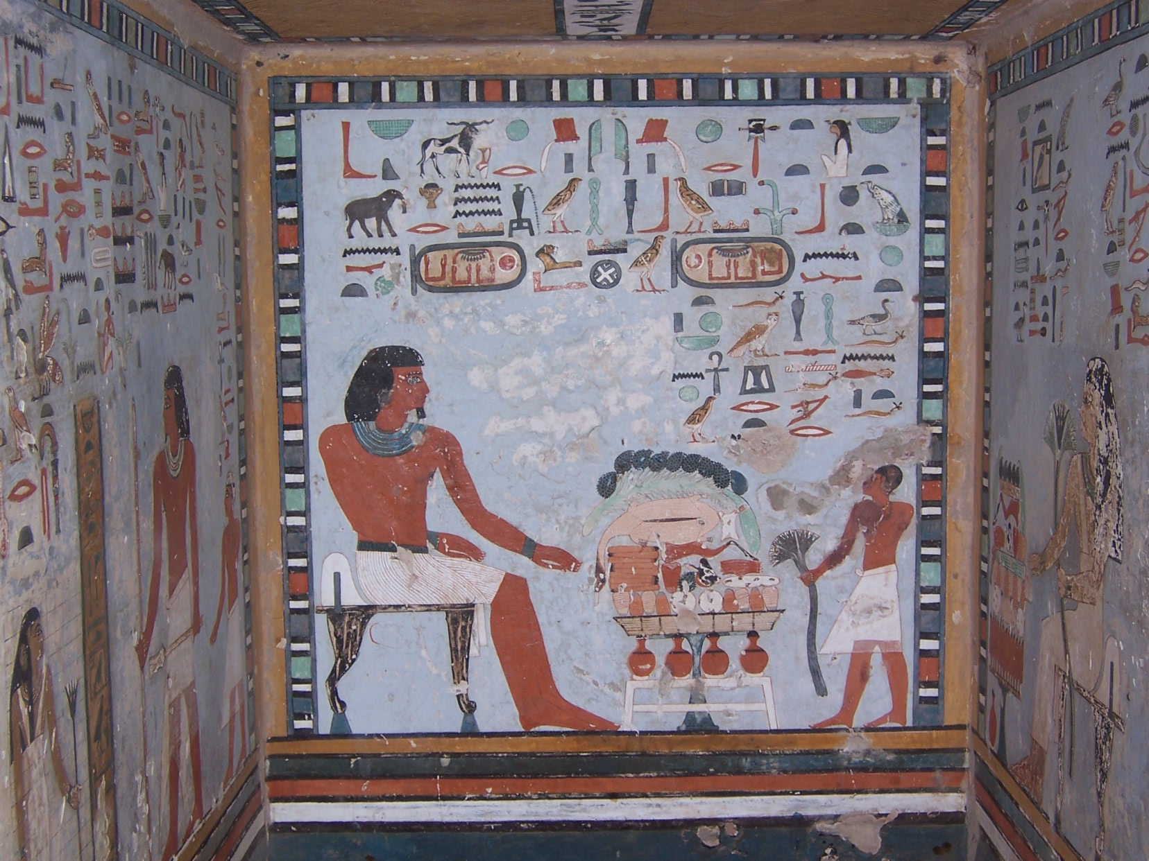 Pictures from Aswan, Egypt